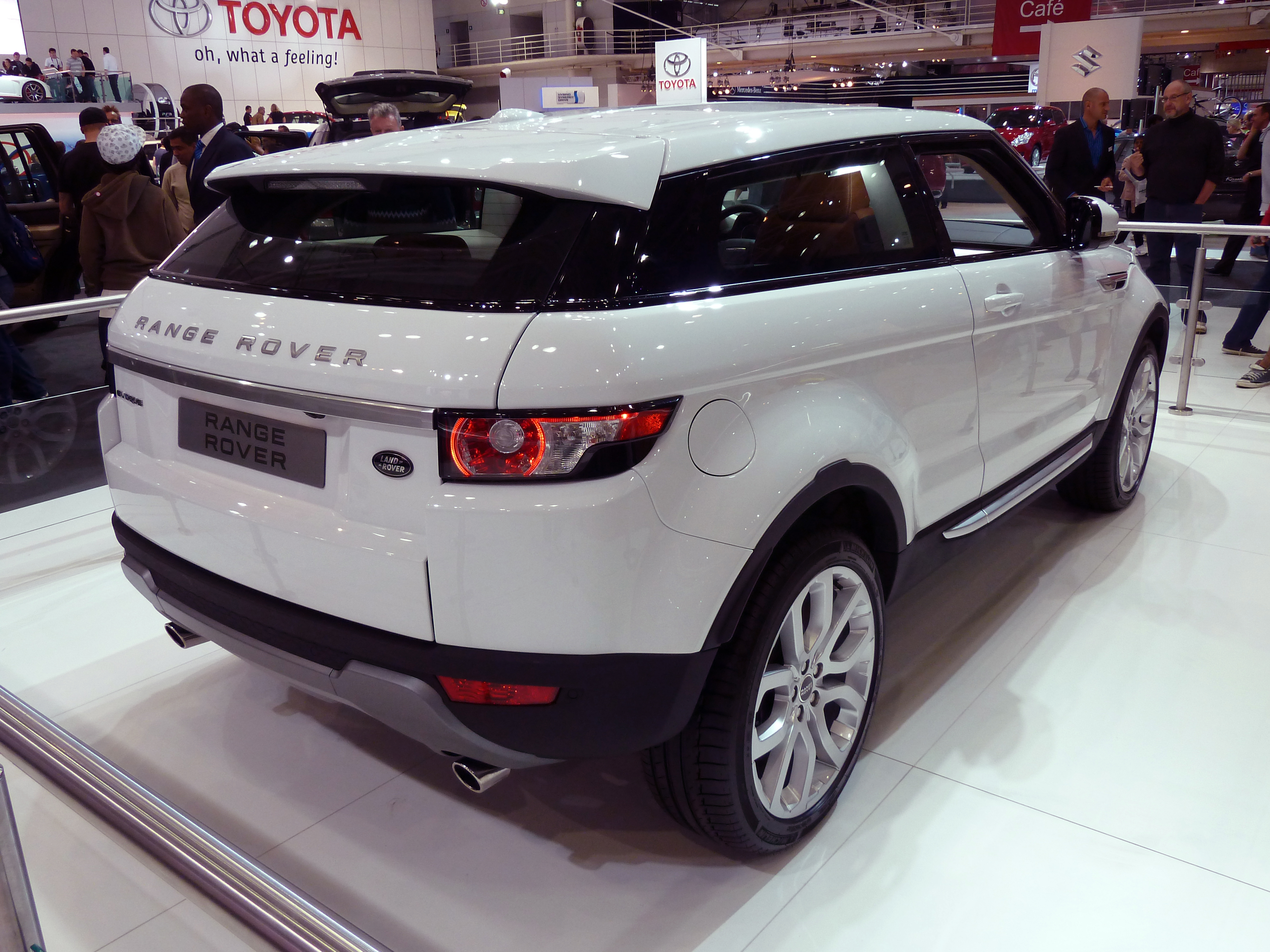 Range Rover Evoque 3-door wagon, prototype. Photographed at the 2010 Australian International Motor Show, Sydney, New South Wales, Australia.